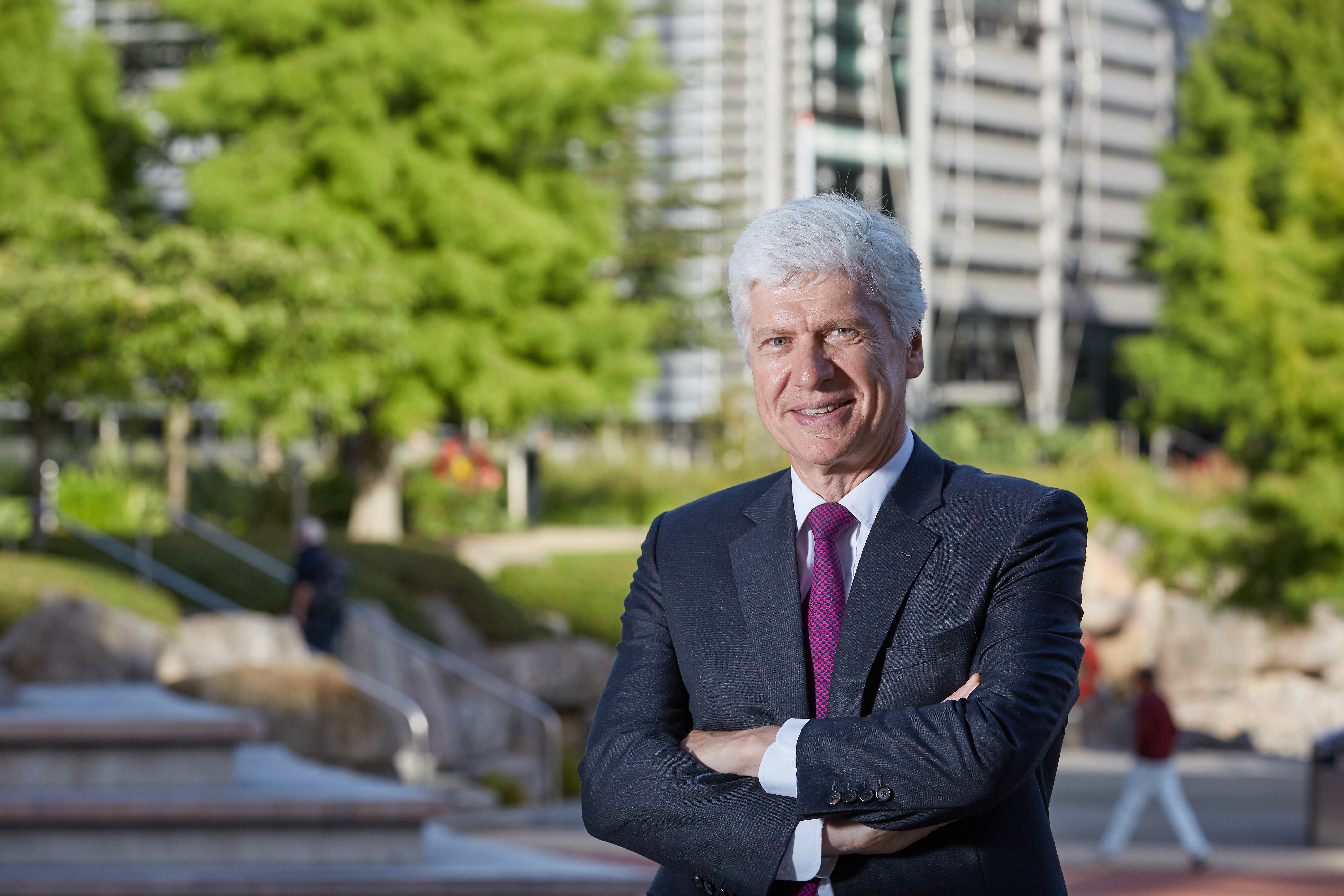 This file is an image of Arnaud Vaissié which was taken by the photographer Ben Lister in 2016 uploaded on Flickr with licence CC BY-SA 2.0.